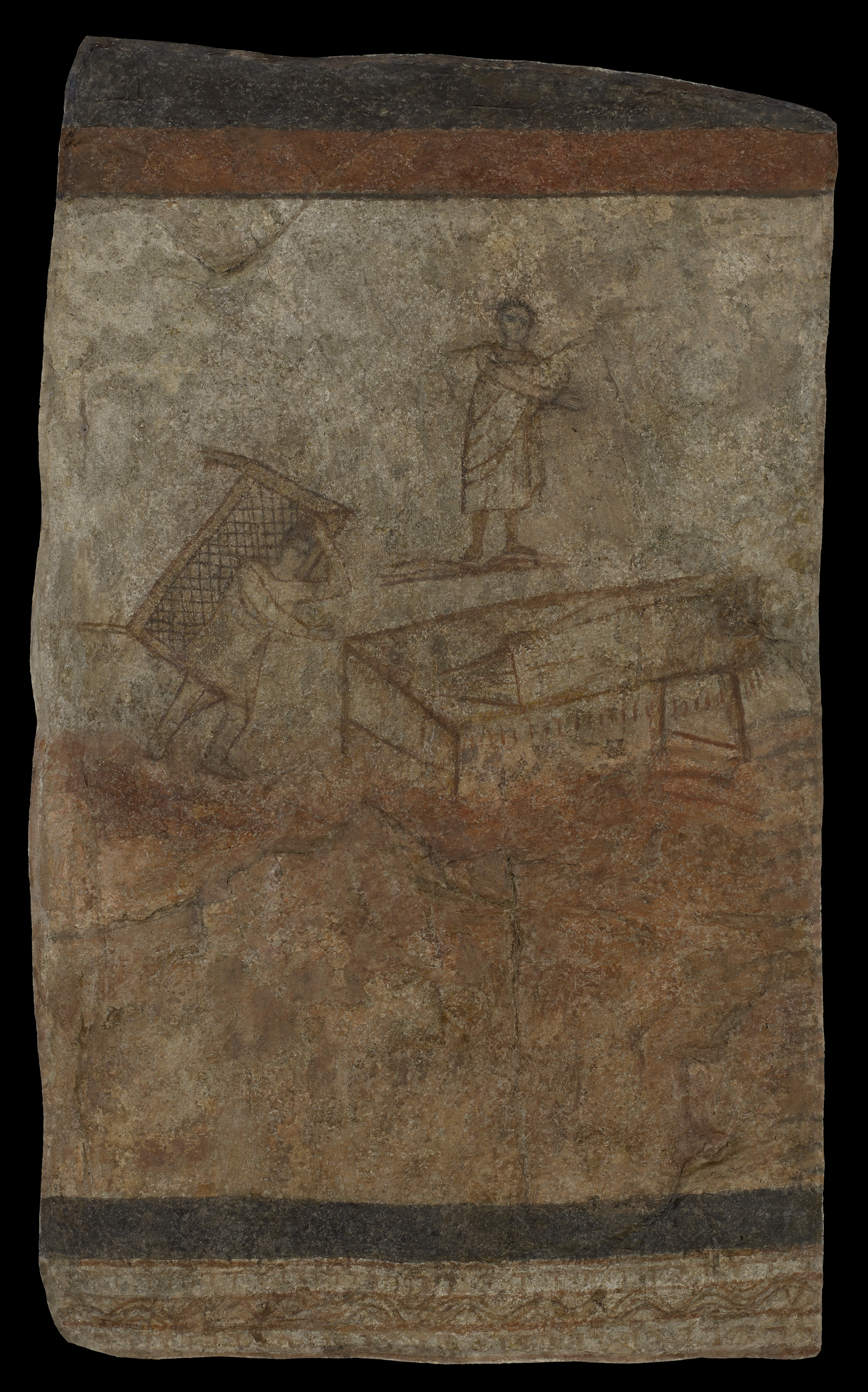 Photo of a painting of Jesus healing the paralytic from the wall of the baptistery in the Dura-Europa church circa 232 A.D. It is one of the earliest visual depictions of Jesus. It was excavated by the Yale-French Excavations between 1928-37 in present day Syria and now resides in the Yale University Art Gallery in New Haven, CT.